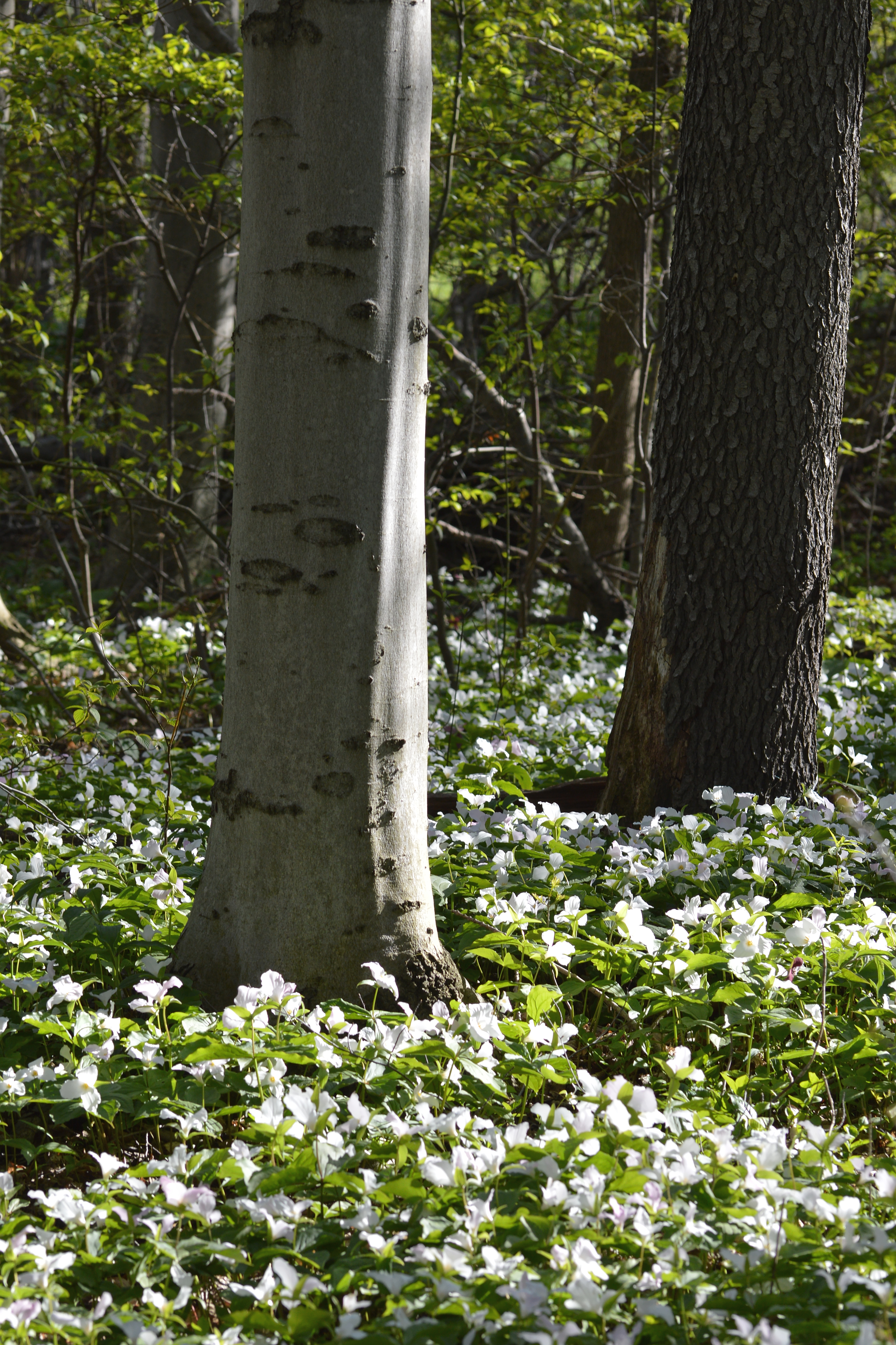 Large White Trilliums (Trillium grandiflorum) in Guelph, Ontario, Canada.